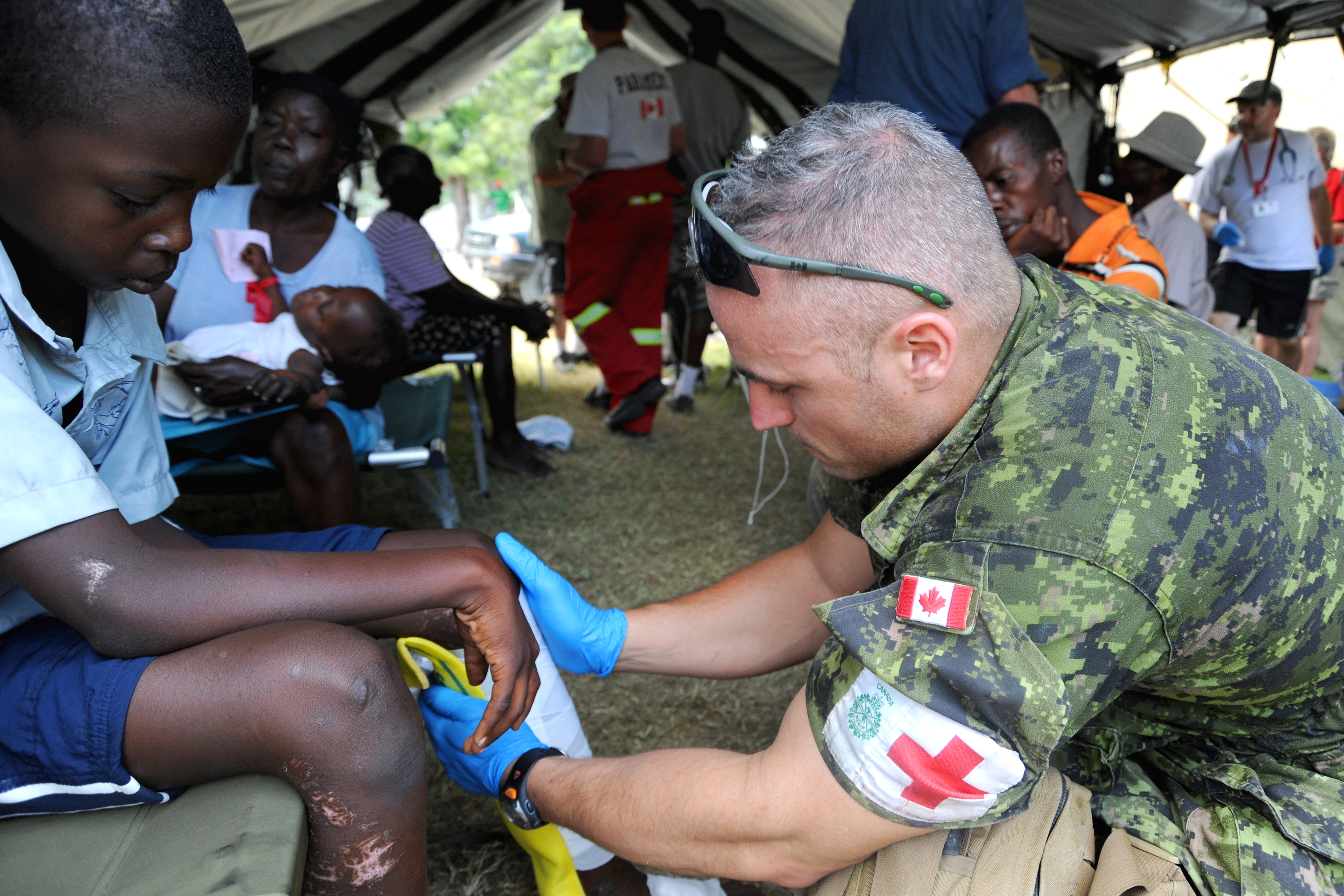 Canadian army medic Cpl. Nicolas Champagne-Leblanc from the 5 Field Ambulance treats an injured Haitian boy at a Canadian-run medical treatment camp near Logne, Haiti, Jan. 25, 2010.